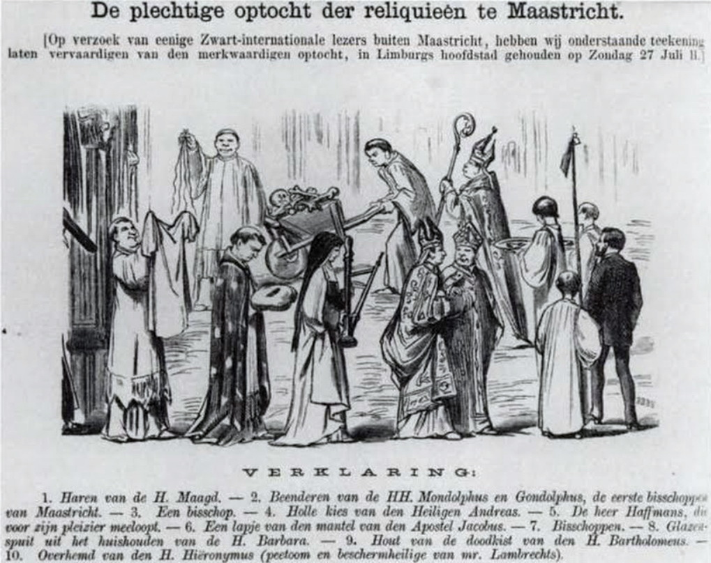 Cartoon published in satirical Dutch magazine Uilenspiegel, 16 August 1873, ridiculing the Maastricht religious procession of 27 July 1873.